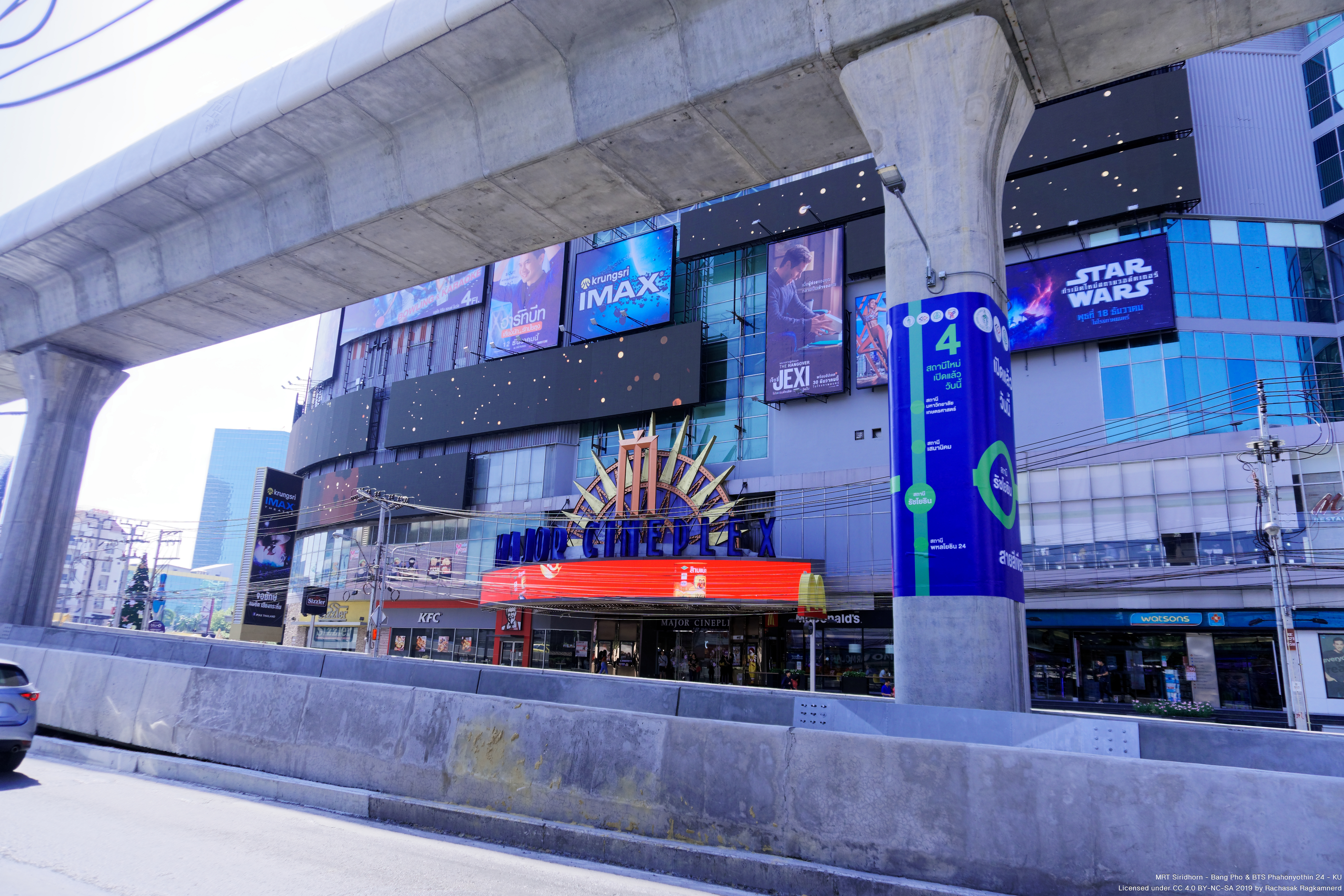 BTS Ratchayothin - Major Ratchayothin